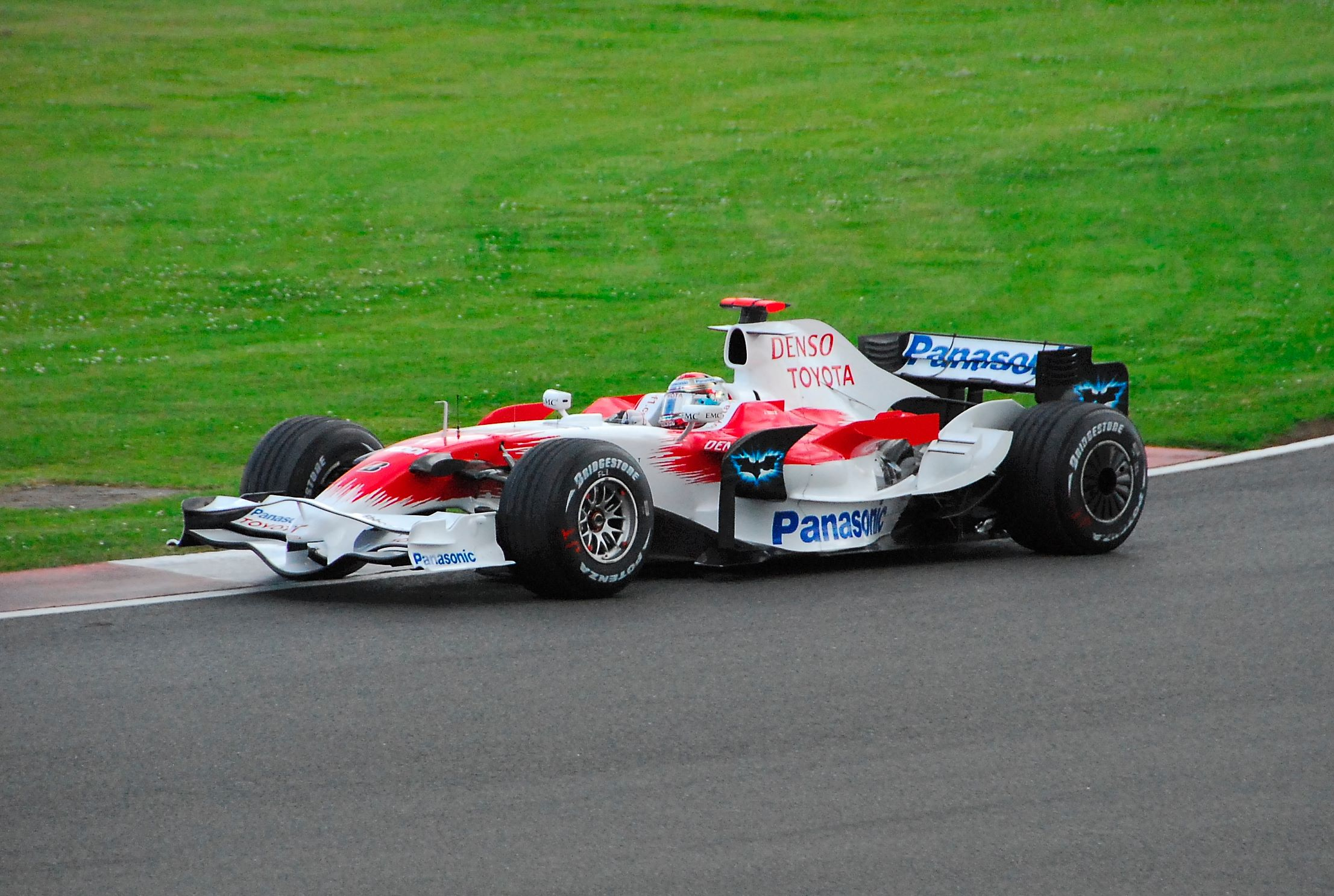 Jarno Trulli driving for Toyota F1 at the 2008 British Grand Prix.